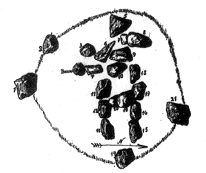 Layout of the Dolmen Lütnitz